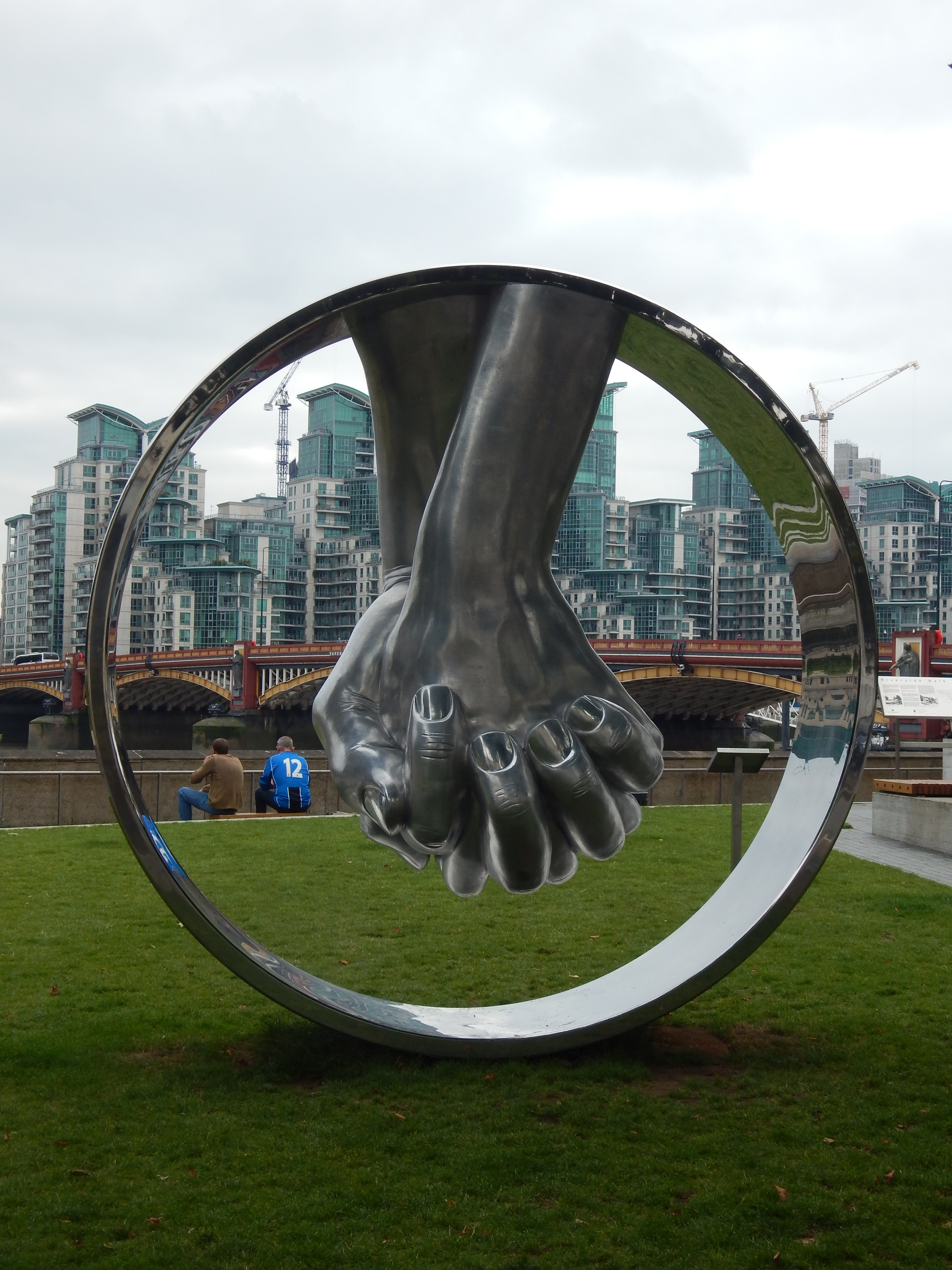 Sculpture Love by Lorenzo Quinn, Riverside Walk Gardens, London